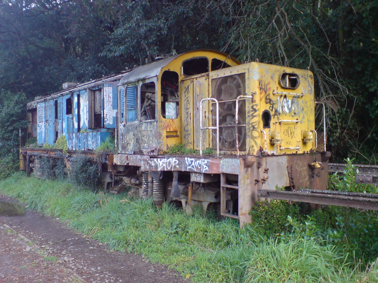 A wrecked old locomotive of the NZR DJ class near Auckland City's (New Zealand) rail enthusiasts depot. Guess they gave up on this one...